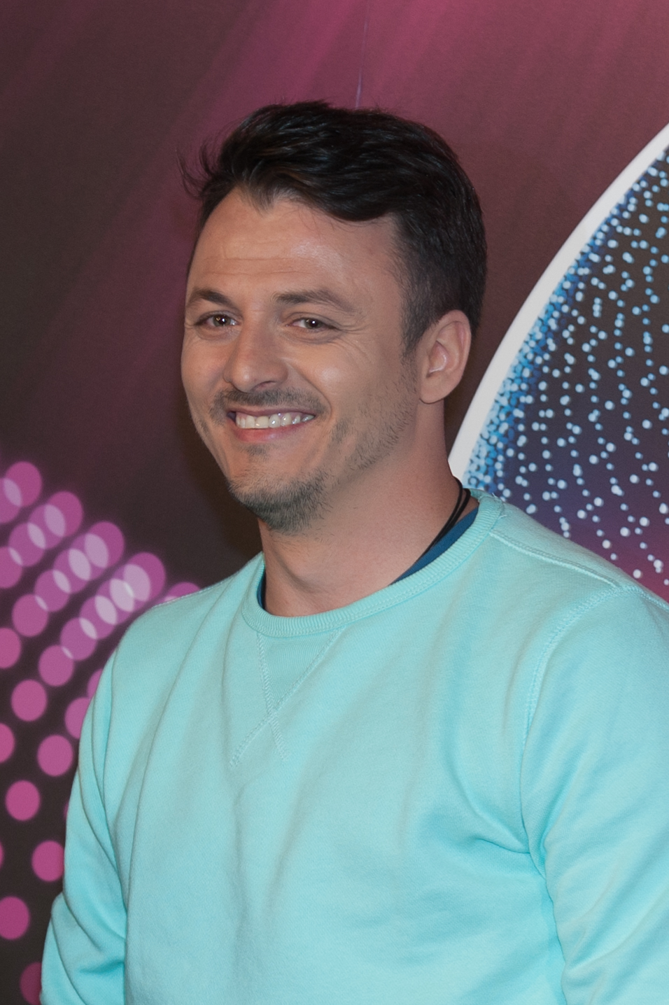 Eurovision Song Contest Vienna 2015: Daniel Kajmakoski